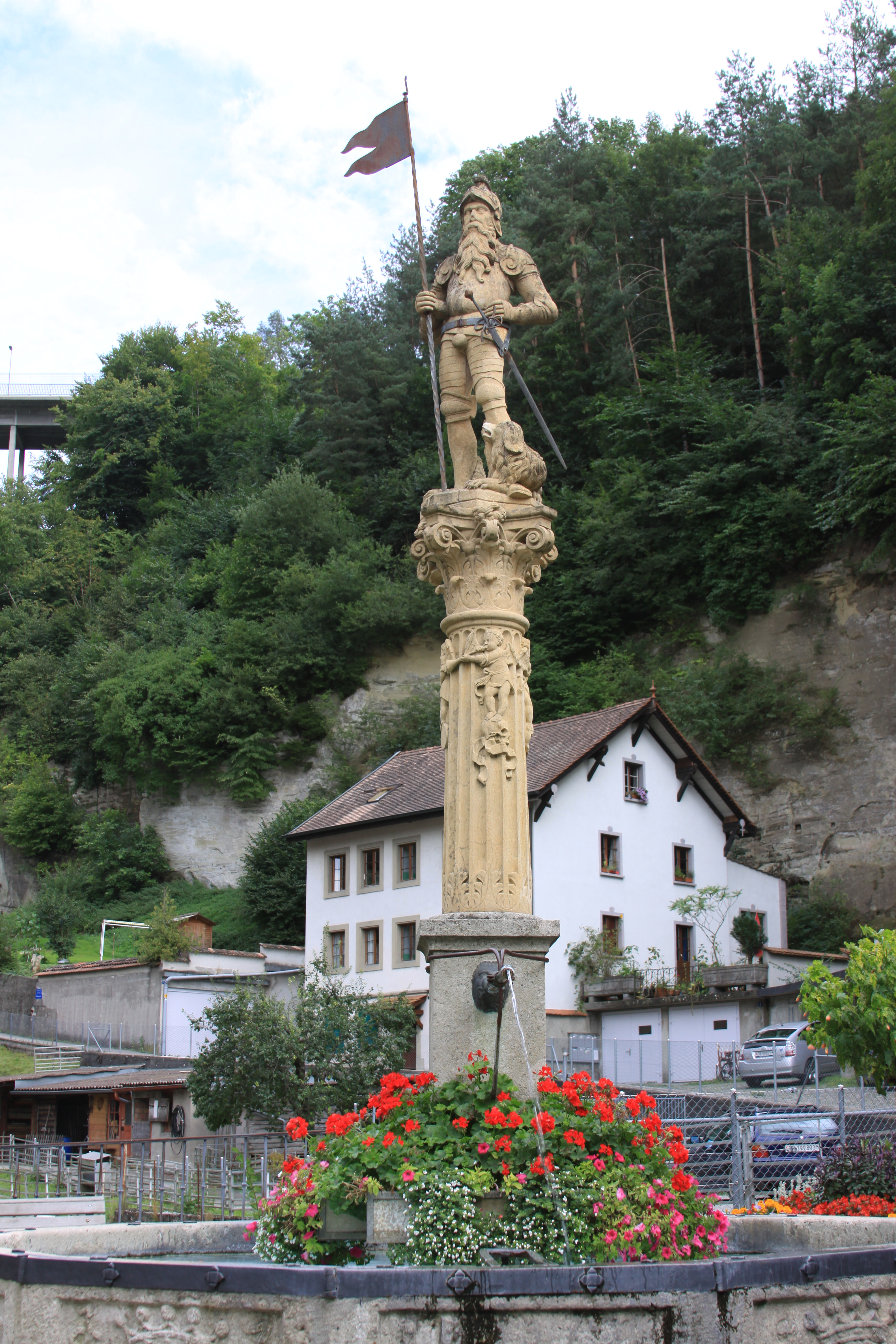 Fountain of Loyalty, Rue des Forgerons, Fribourg, Switzerland